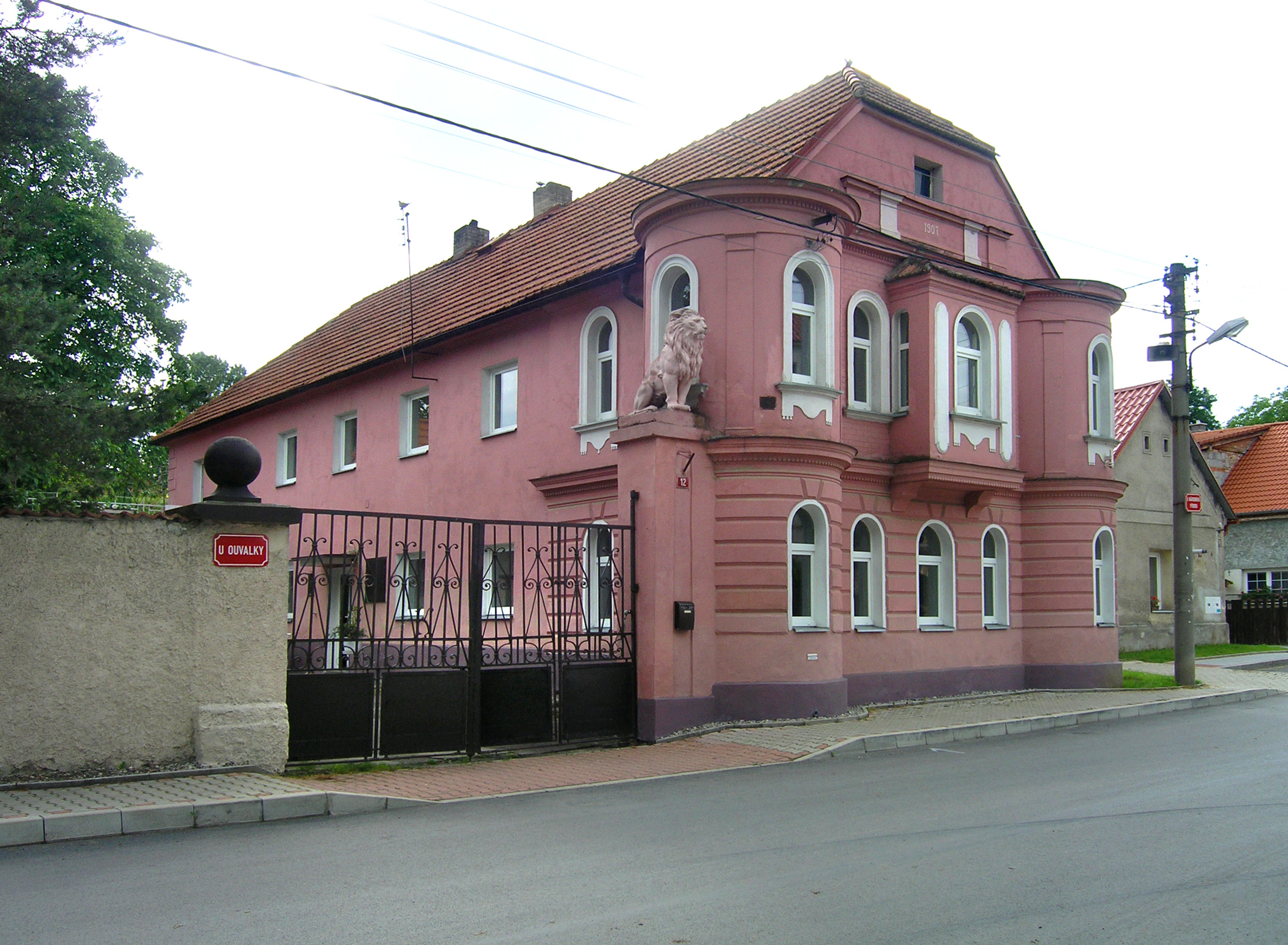 Kněževes, Prague-West District, Czech Republic. U Ouvalky 12.